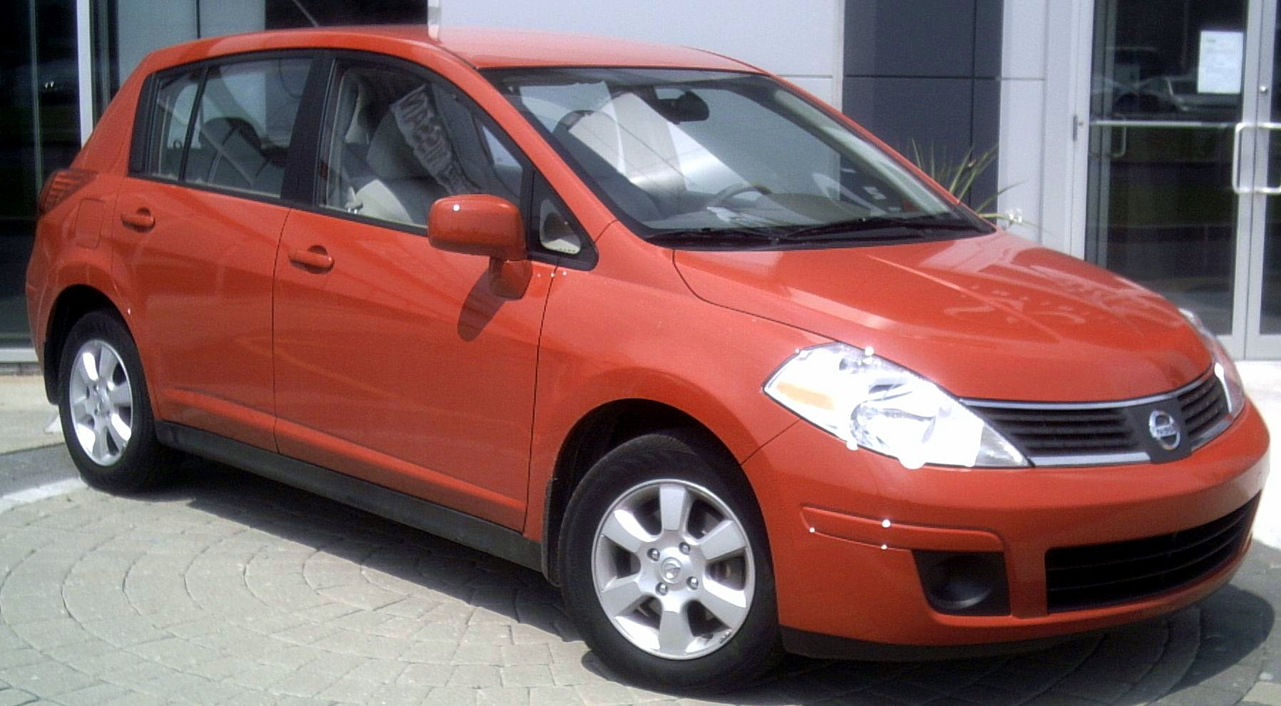 2007 Nissan Versa photographed in Montreal, Quebec, Canada.